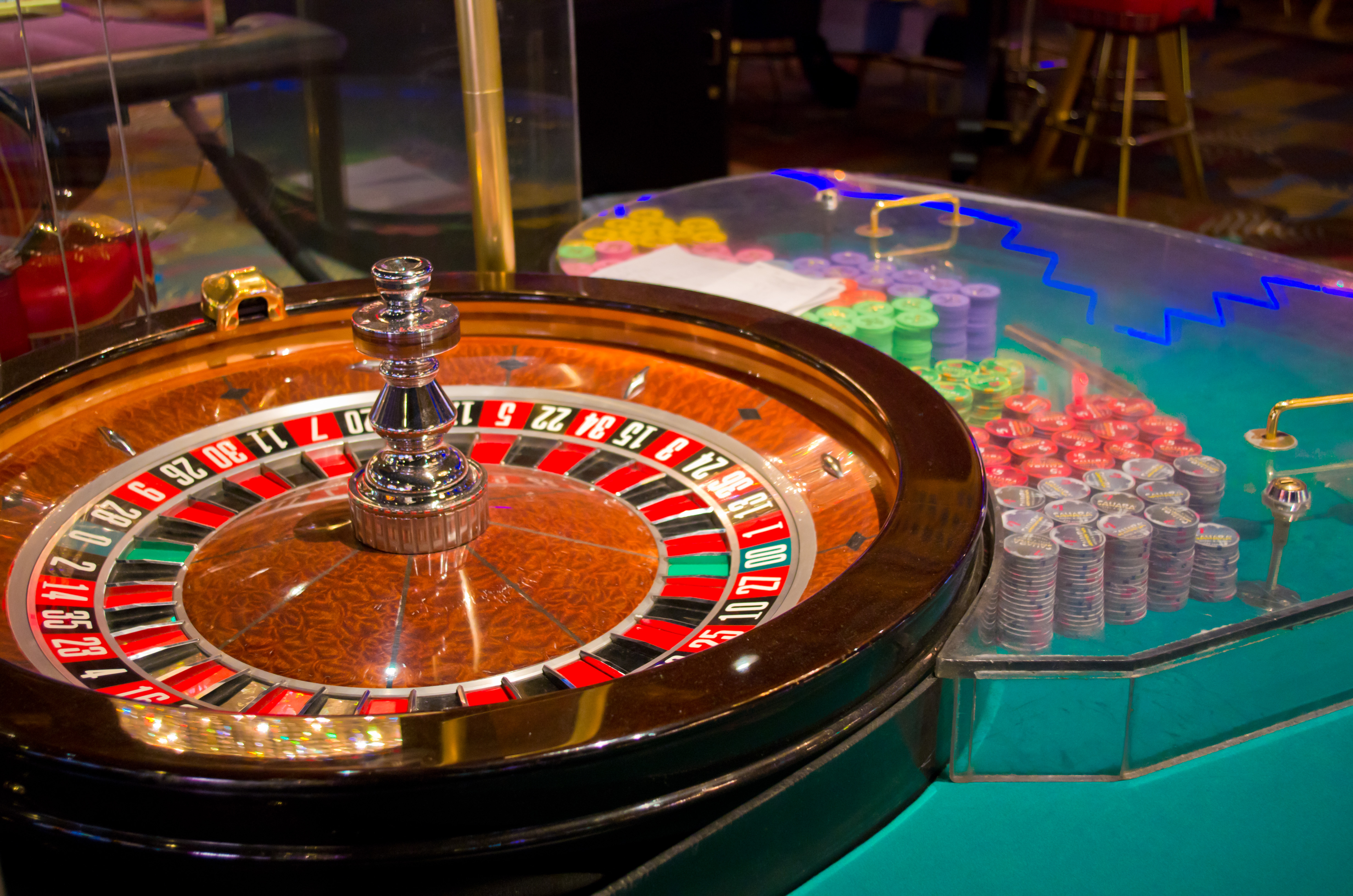 Sahara Hotel and Casino